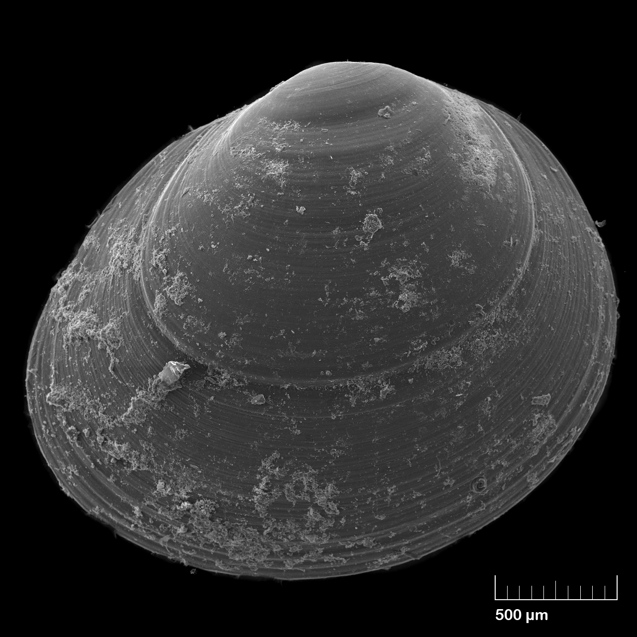 SE SEM-image of freshwater bivalve Pisidium sp from alluvium from Son river, Republic of Khakassia, Russia